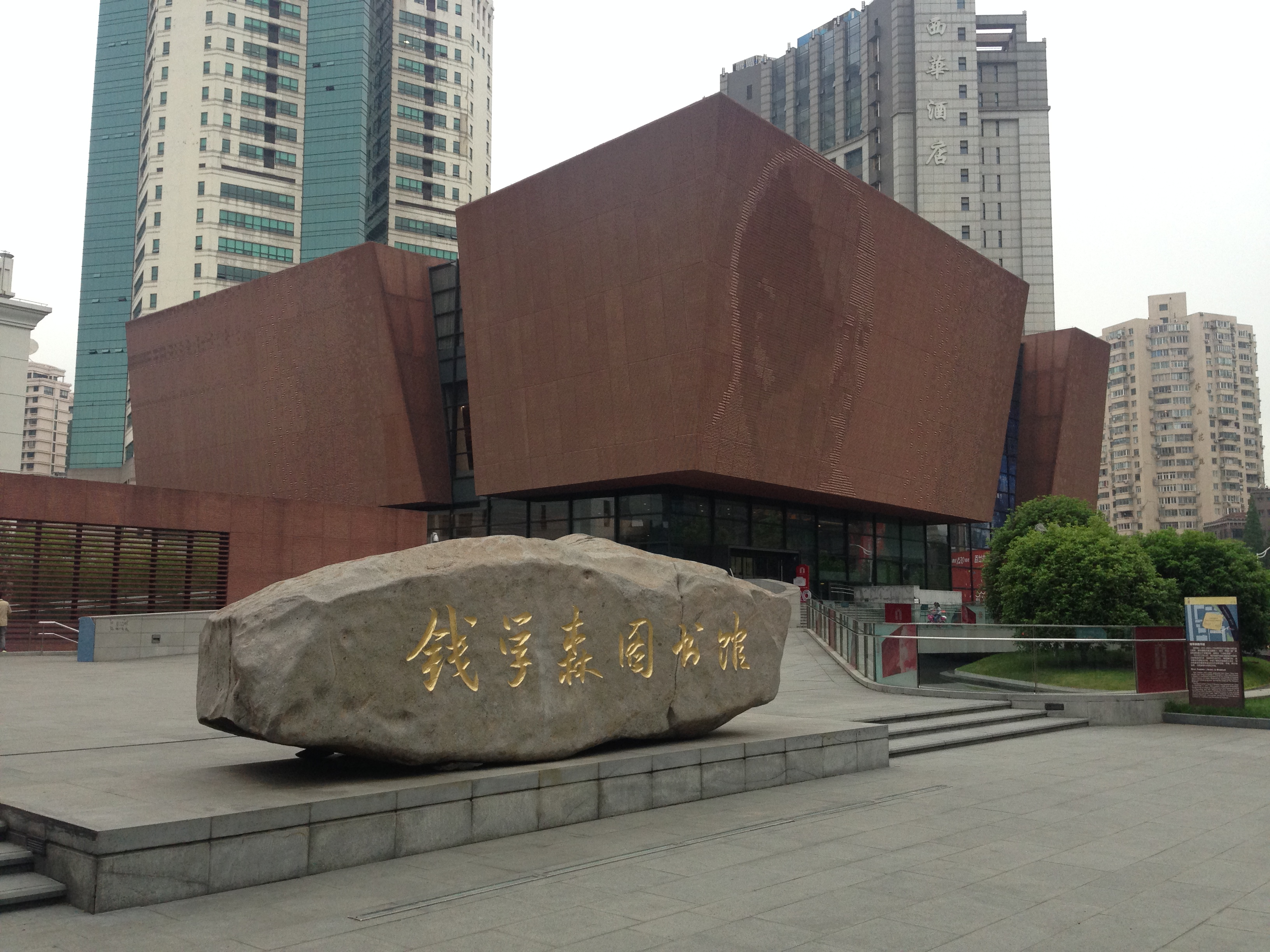 The Qian Xuesen Library at Shanghai Jiao Tong University (Xuhui Campus)